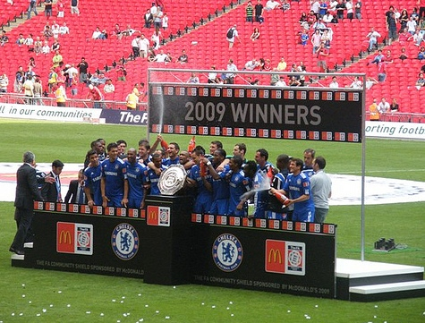 Chelsea F.C.'s 2009 Community Shield Winners presentation